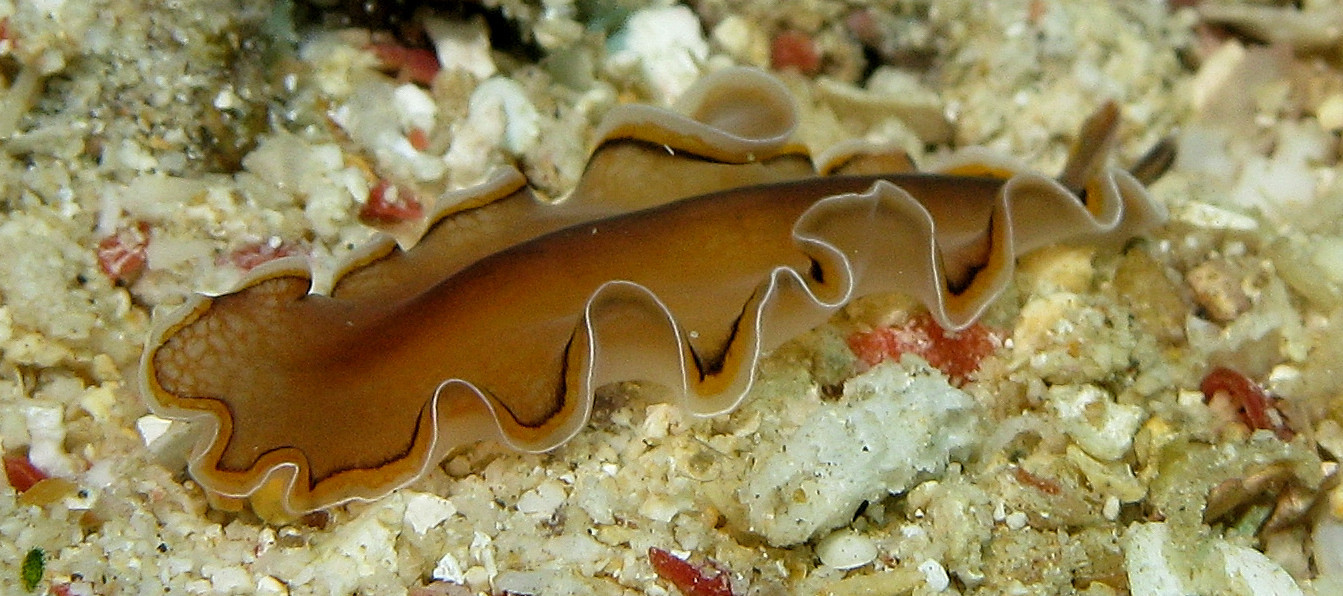 Pseudoceros sp.